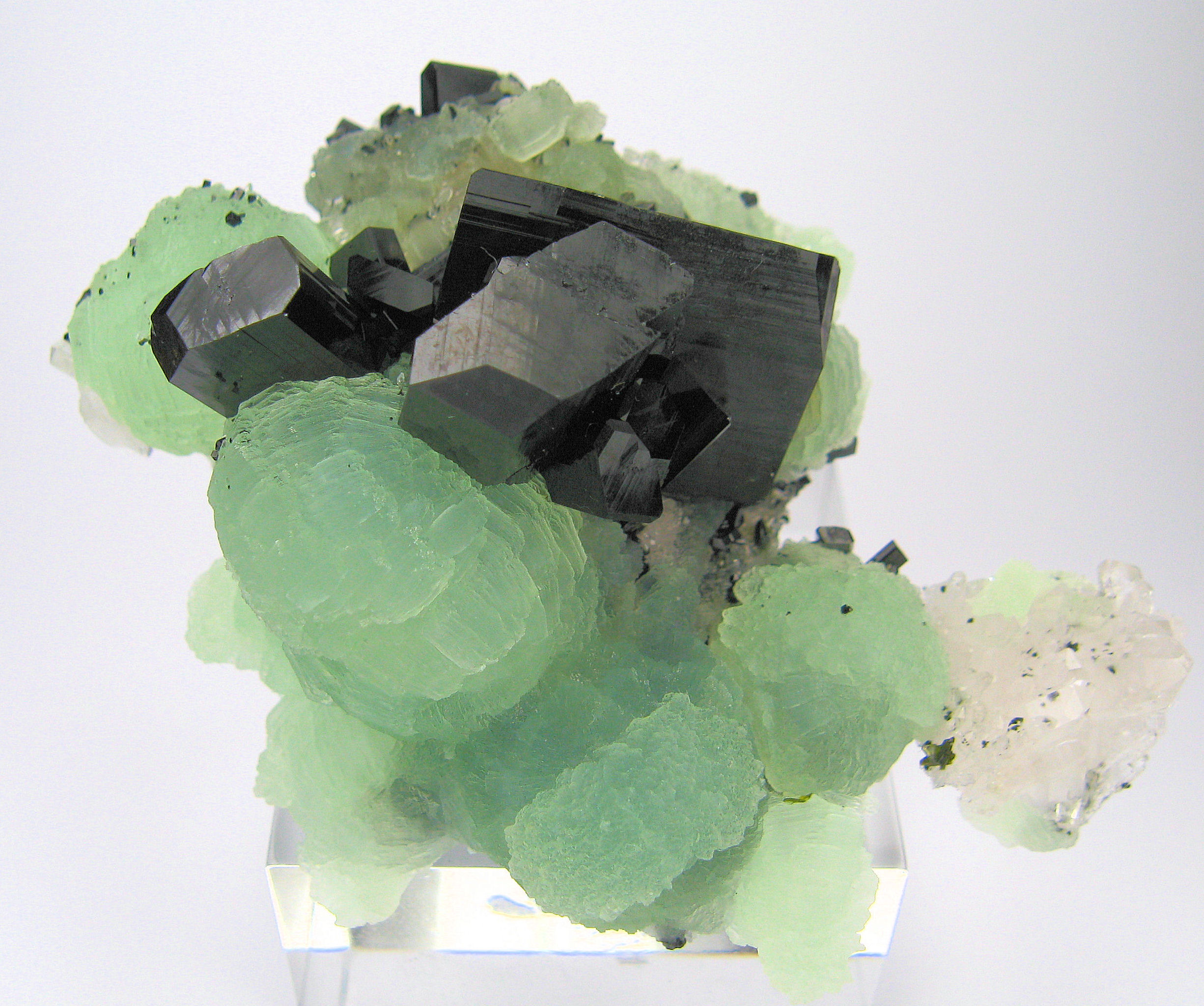 Triclinic crystals of babingtonite with prehnite, from Qiaojia, Qiaojia Co., Zhaotong, Yunnan, China (size: 71 mm x 55 mm, 71 g)